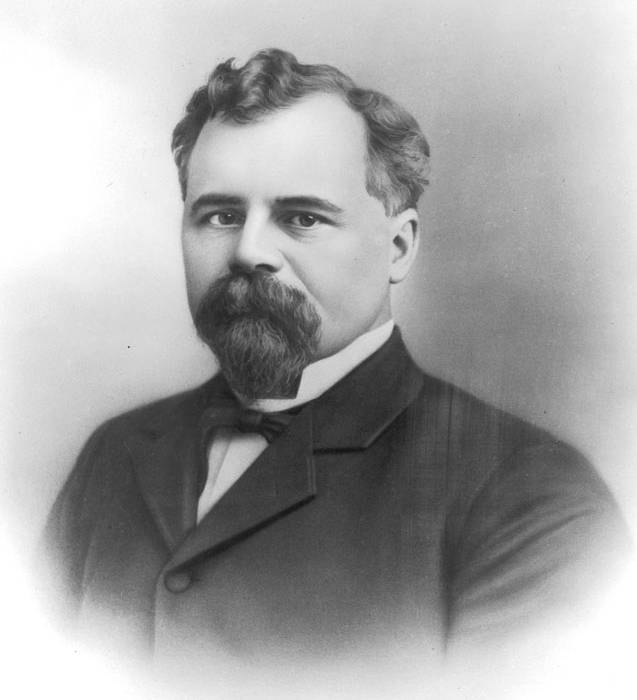 Photo of Arthur Lloyd Thomas, governor of the territory of Utah from 1889-1893.